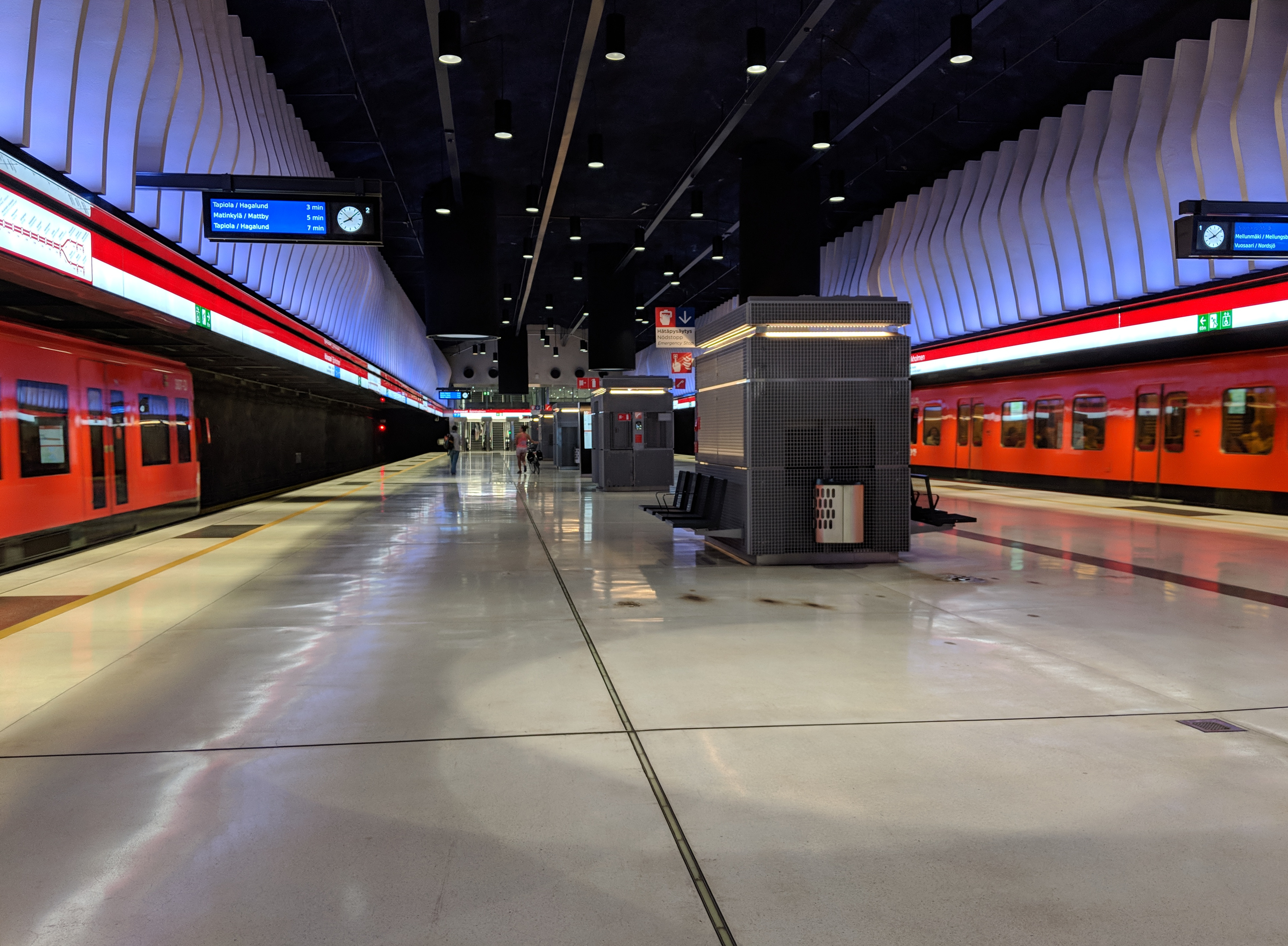 Subway station Koivusaari (located 30 meters under the floor of the Baltic sea, Helsinki, Finland)